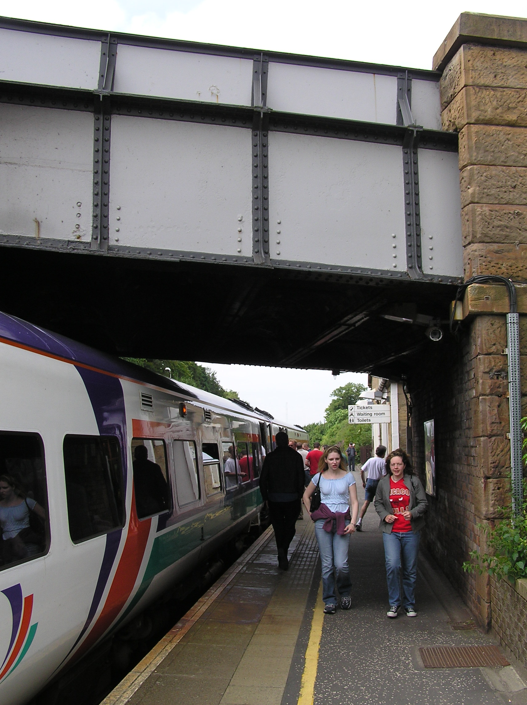 The Polmont railway station in Polmont, Scotland. Photo taken by Finlay McWalter on the 7th of August 2004.